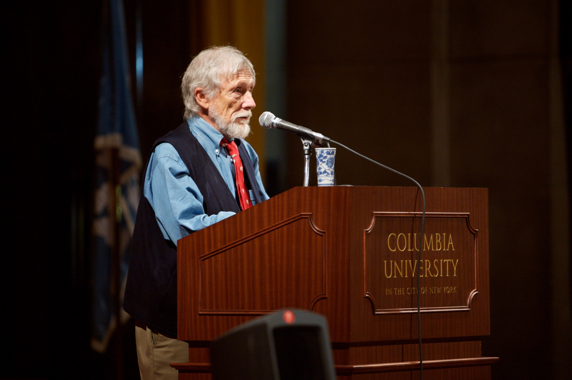 Gary Snyder, speaking at Columbia University, in 2007.